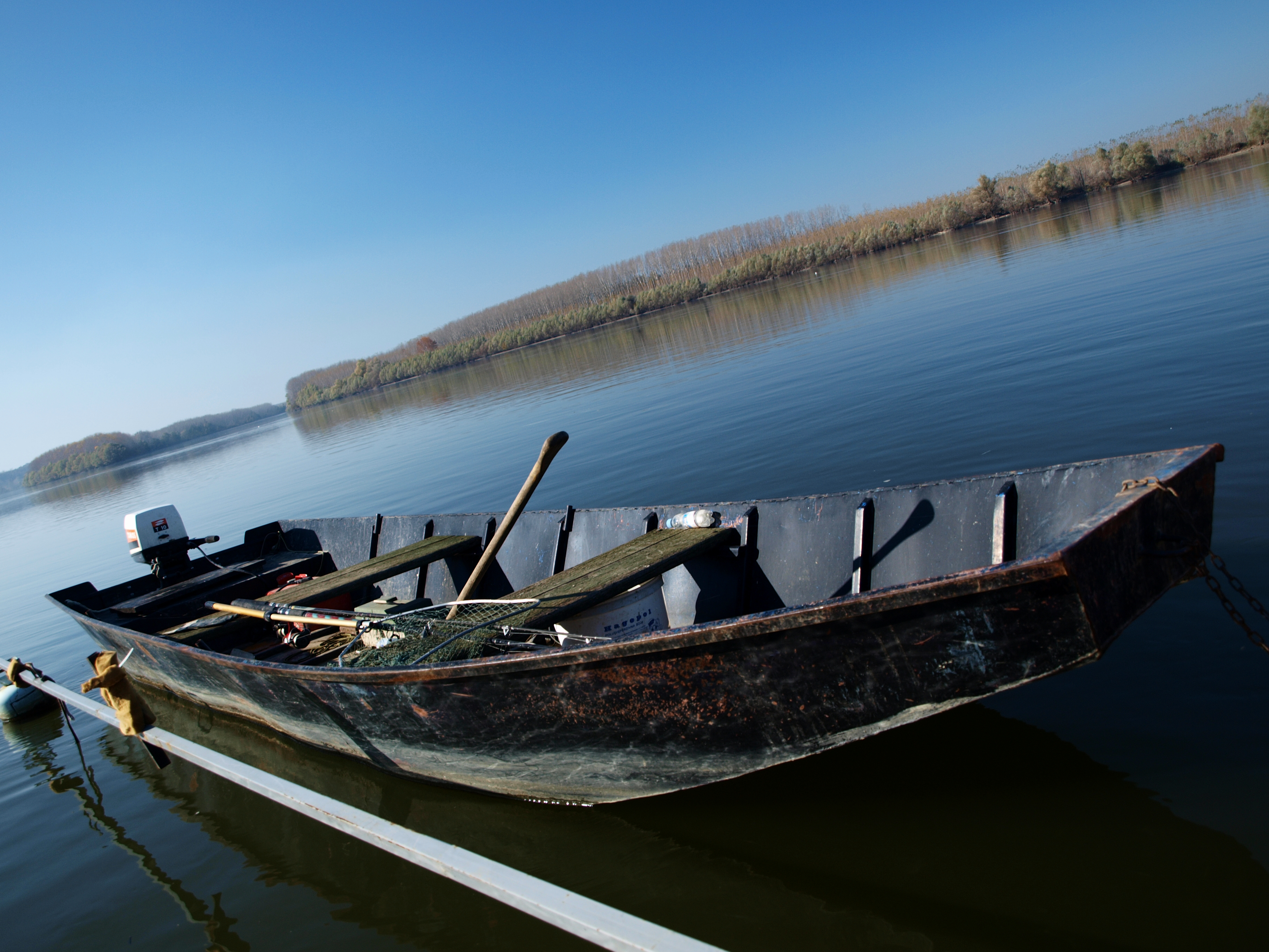 Fishing boat on Danube river, Banoštor, Serbia.